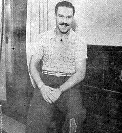 José Manuel Moreno, 1948.